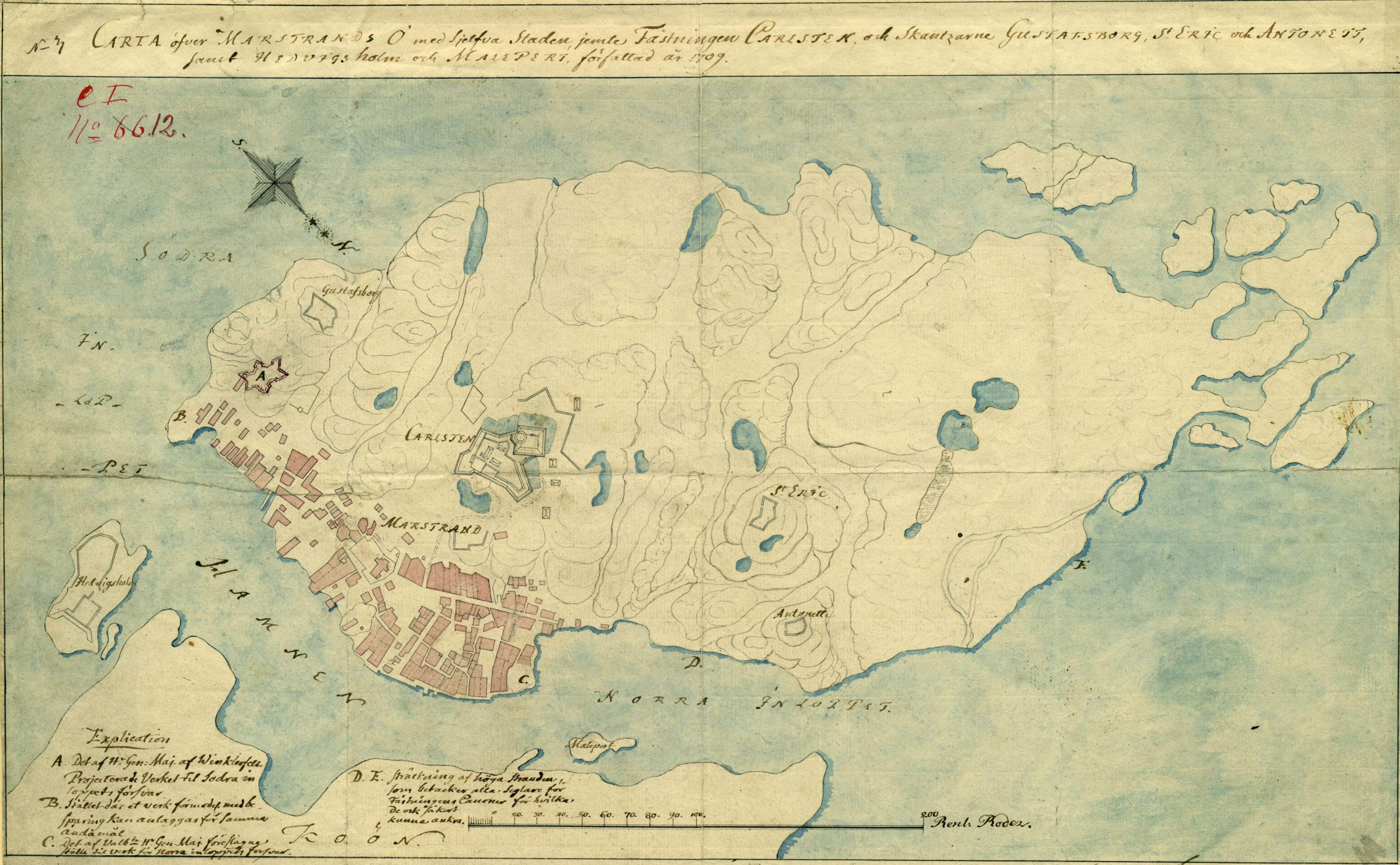 Map showing the fortifications, also planned, around the Swedish fortress Karlsten, and town Marstrand, in Sweden 1709. The map is a copy from 1779.